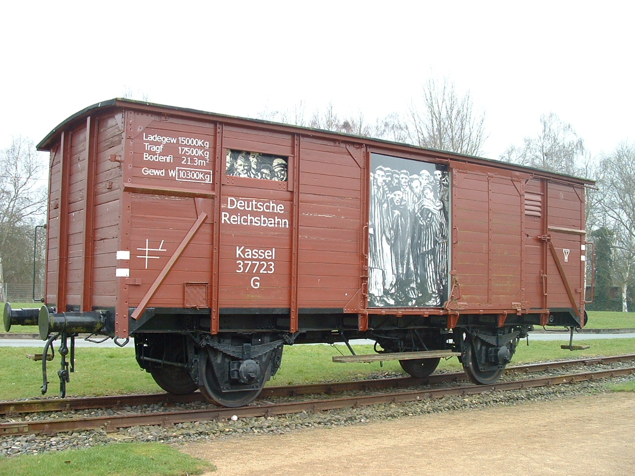 Train wagon at the Neuengamme concentration camp